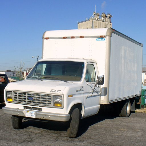 1988 Ford Econoline 350 converted to box truck; owned, used, and maintained by Our Community Place in Harrisonburg, Virginia.